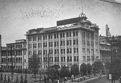 Tokyo Nichi Nichi Shimbun Company Building